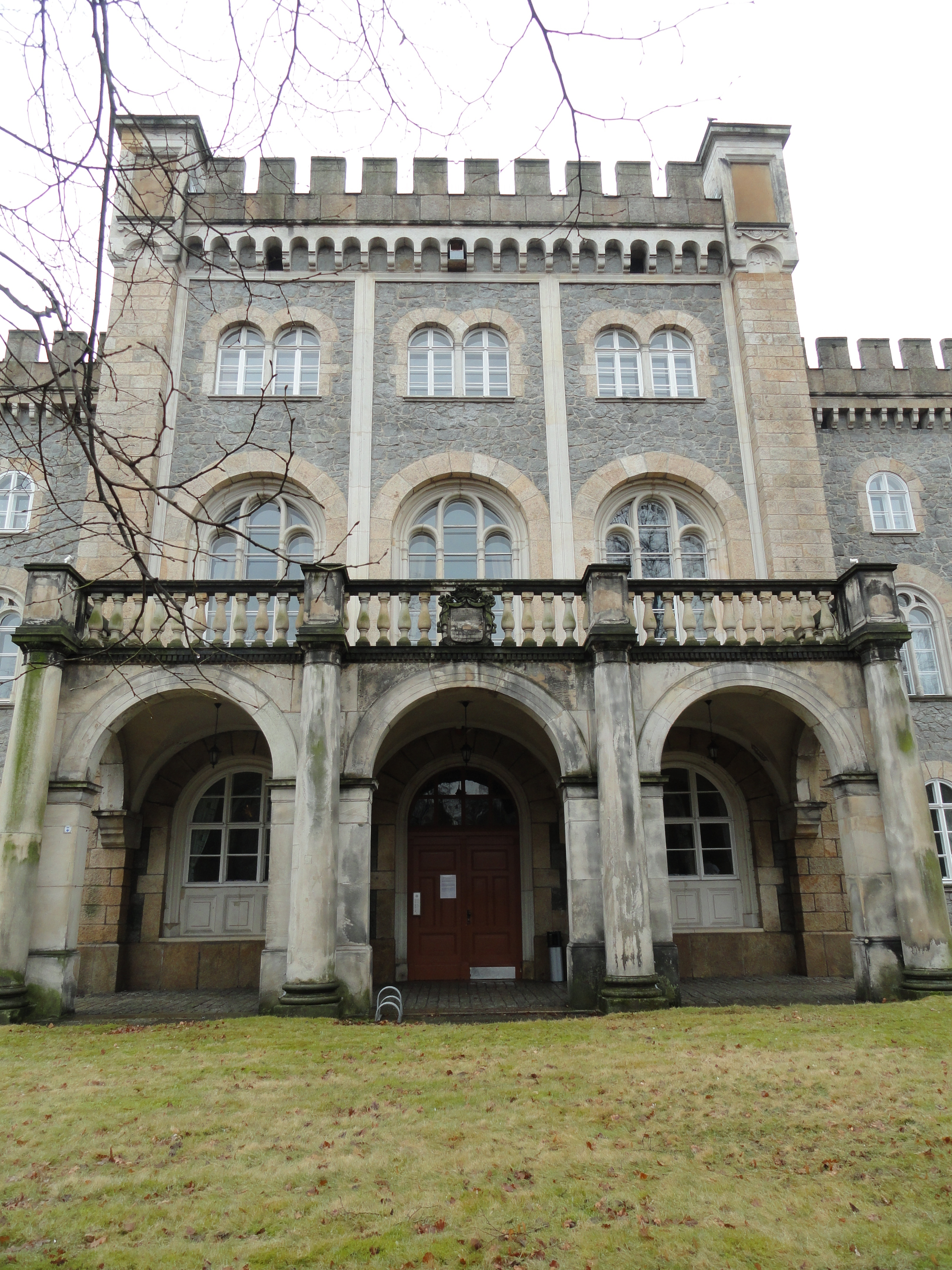 main gate of the former house of the estates in Görlitz